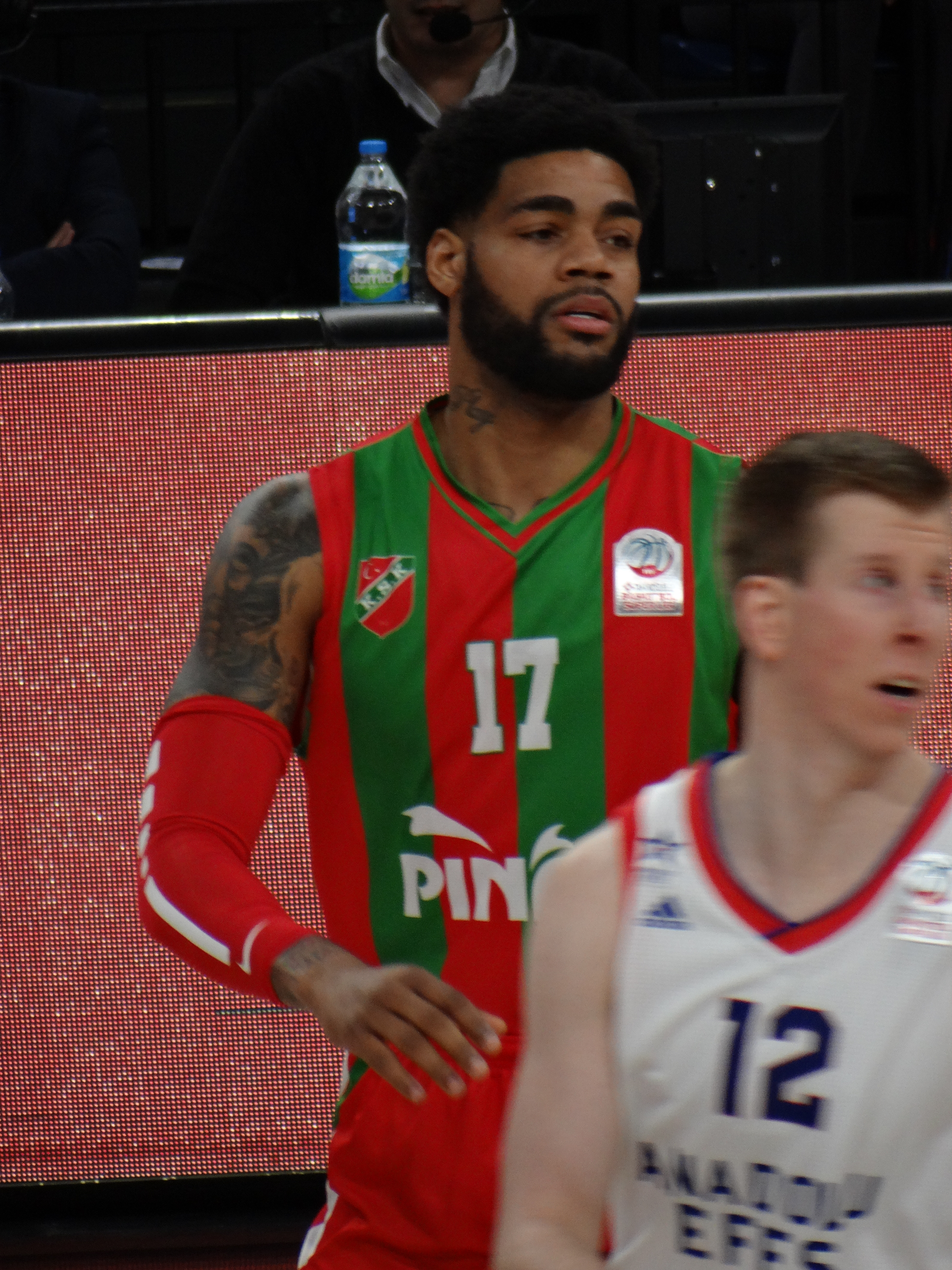 D. J. Kennedy 17 Pınar Karşıyaka TSL 20180128